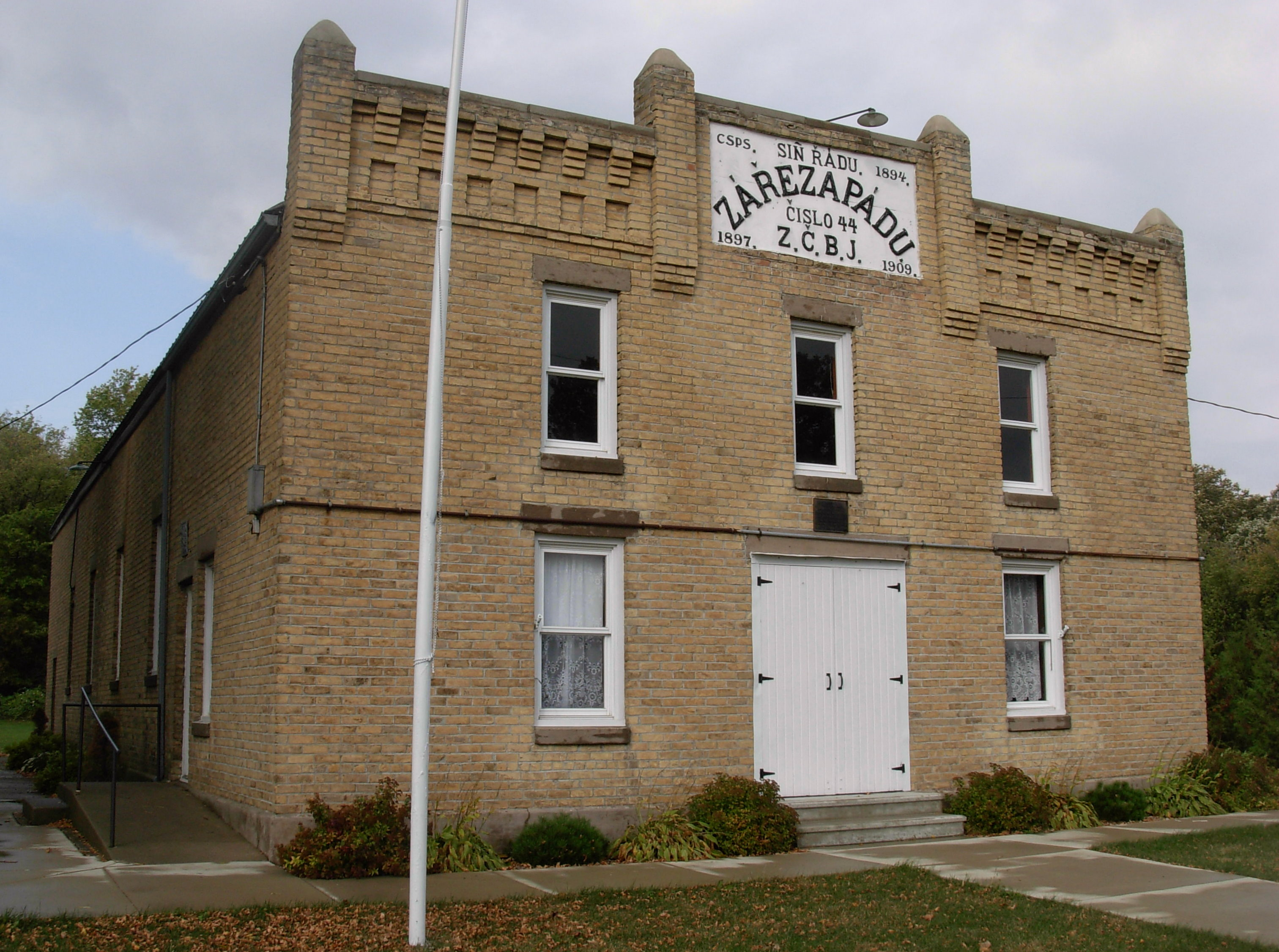 Western Fraternal Life Association Zare Zapadu Lodge 44 (Yellow Brick Hall) on Freeborn County Road 30 near Hayward, Minnesota, United States